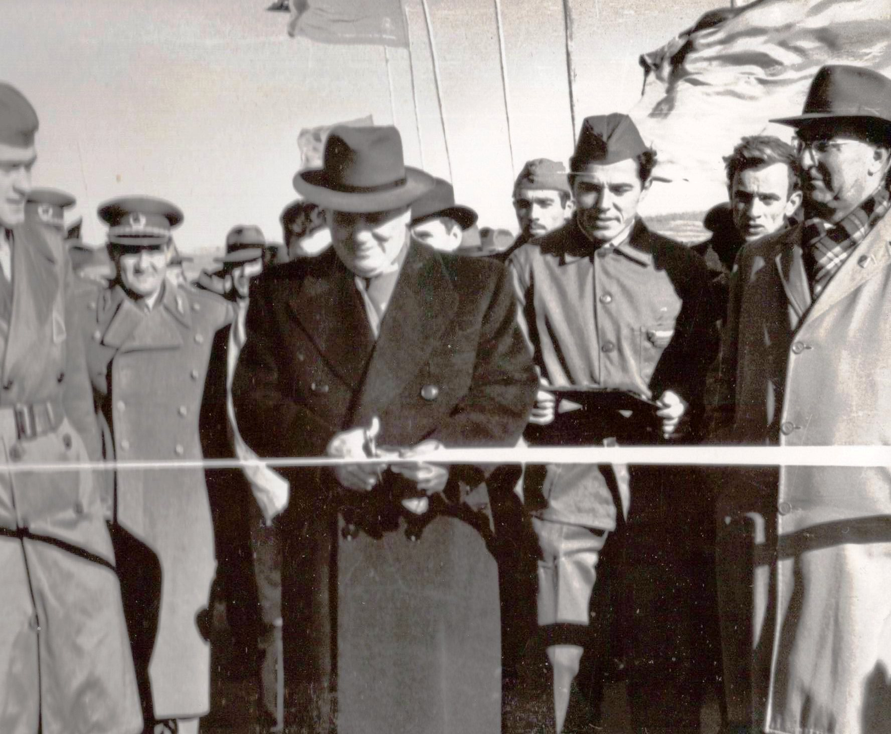 Josip Broz - Tito officially puts in use the road Paracin-Nis, SR Serbia, 1959. This media file is produced by Wikipedian in Residence in Category:Wikipedian in Residence at DARM in 2017.